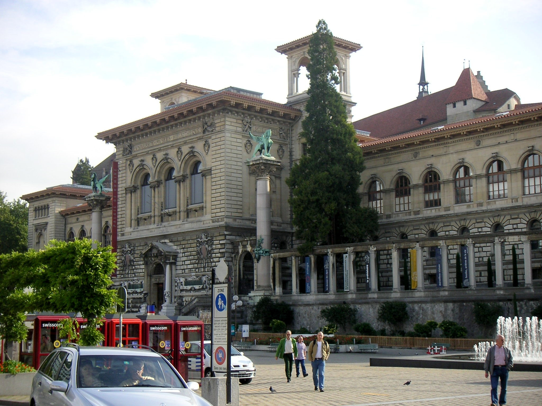 Former university of Lausanne. Taken by me in 2004. Rumin palace (fr. Palais de Rumine) is found on Place de la Riponne in Lausanne center. Now hosting 5 museums and a library: le Musée des Beaux-arts, le Musée d’Archéologie et d’Histoire, le Musée de Géologie, le Musée de Zoologie, le Cabinet des médailles ainsi que la Bibliothèque Cantonale et Universitaire (BCU).